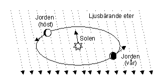 Swedish translation of Image:AetherWind.png